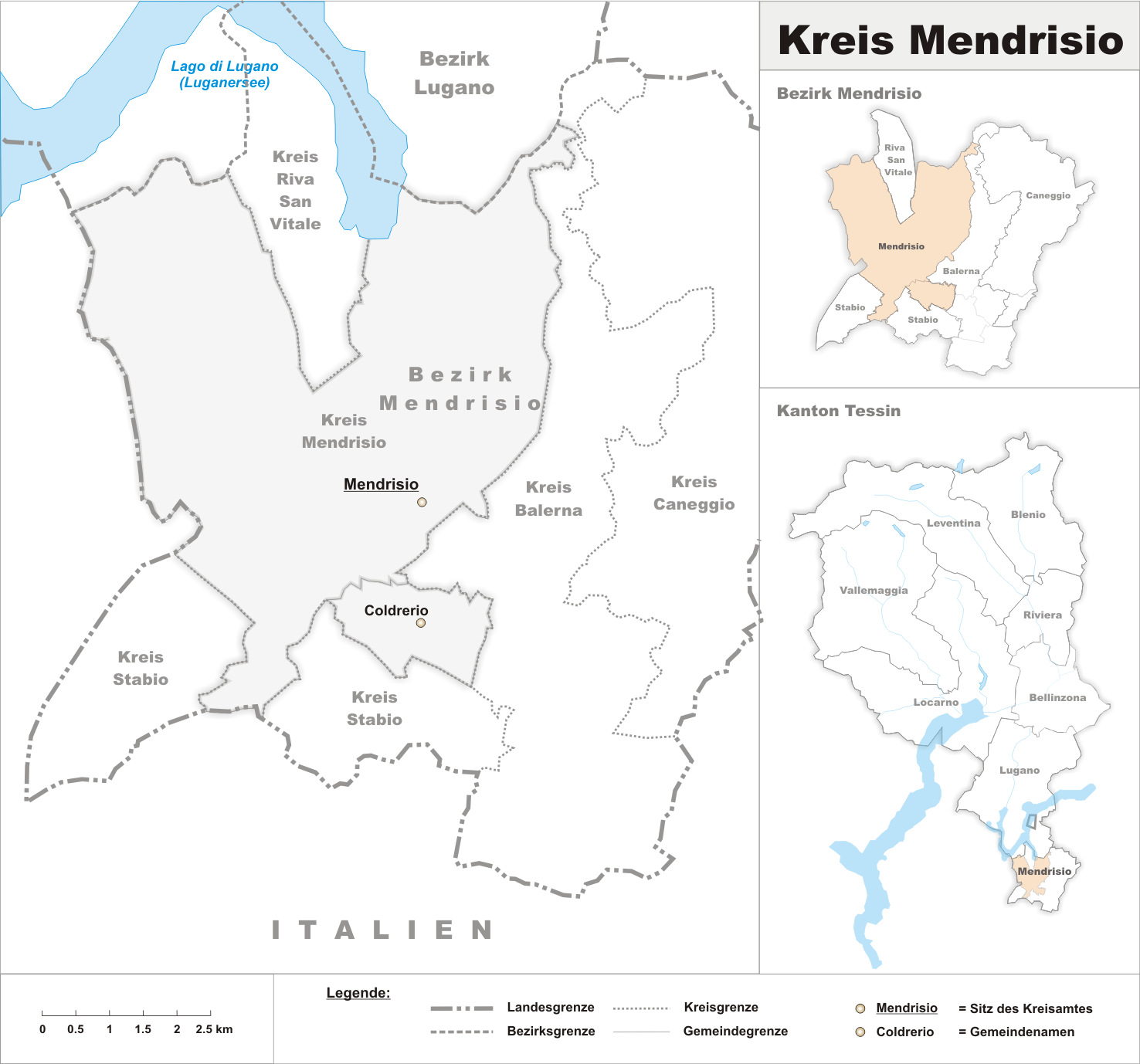 Municipalities in the circle of Mendrisio